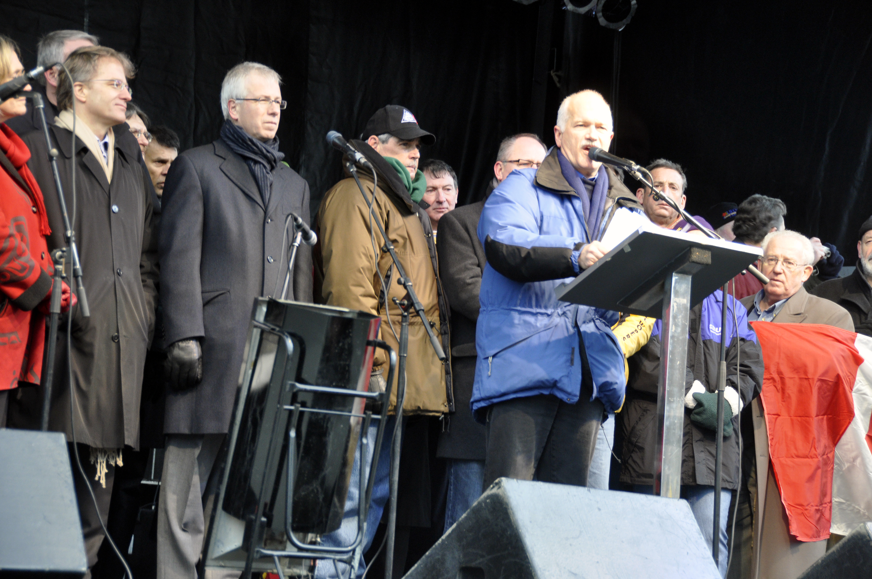 Images from the 12/6/2008 protest in Toronto against Stephen Harper's government shutdown; NDP's Jack Layton speaking to crowd. Stéphane Dion is third from left.